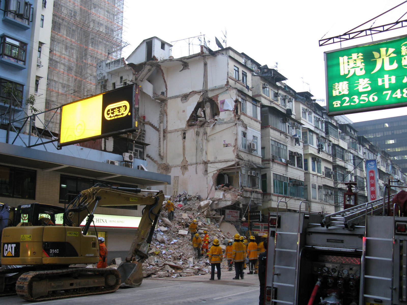 Tenement Building collapse in Ma Tau Wai Road, 2010-01-29